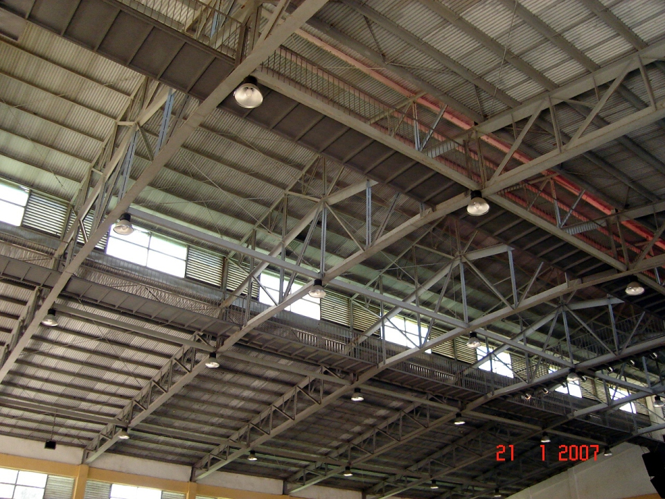 The roof (viewed from the inside) of the gymnasium of the Rogationist College of Silang, Cavite, Philippines